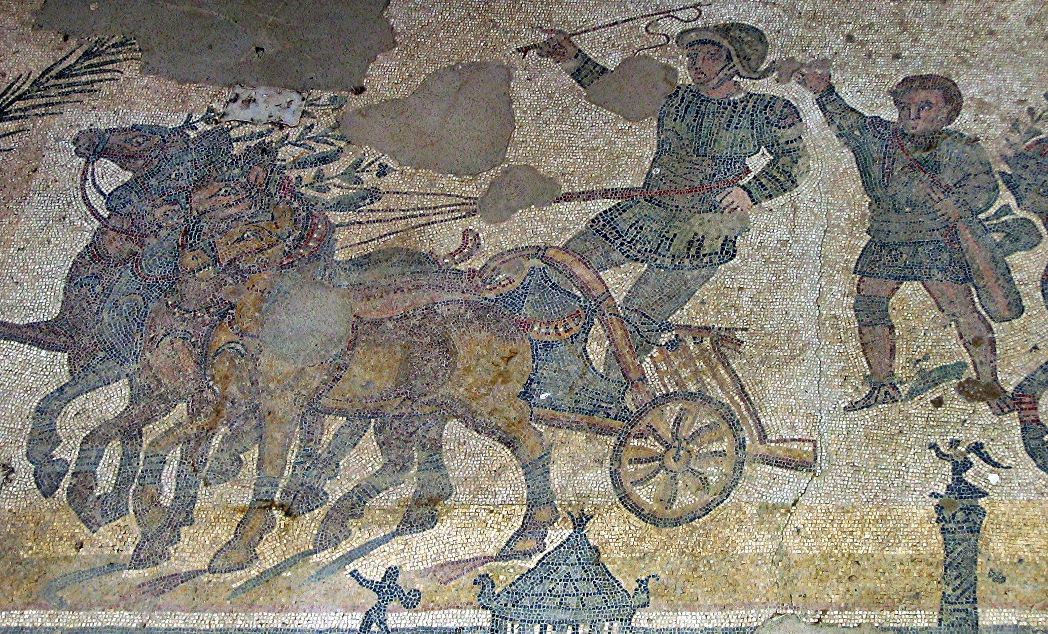 Modified version of: Image:Villa Del Casale Char.jpg